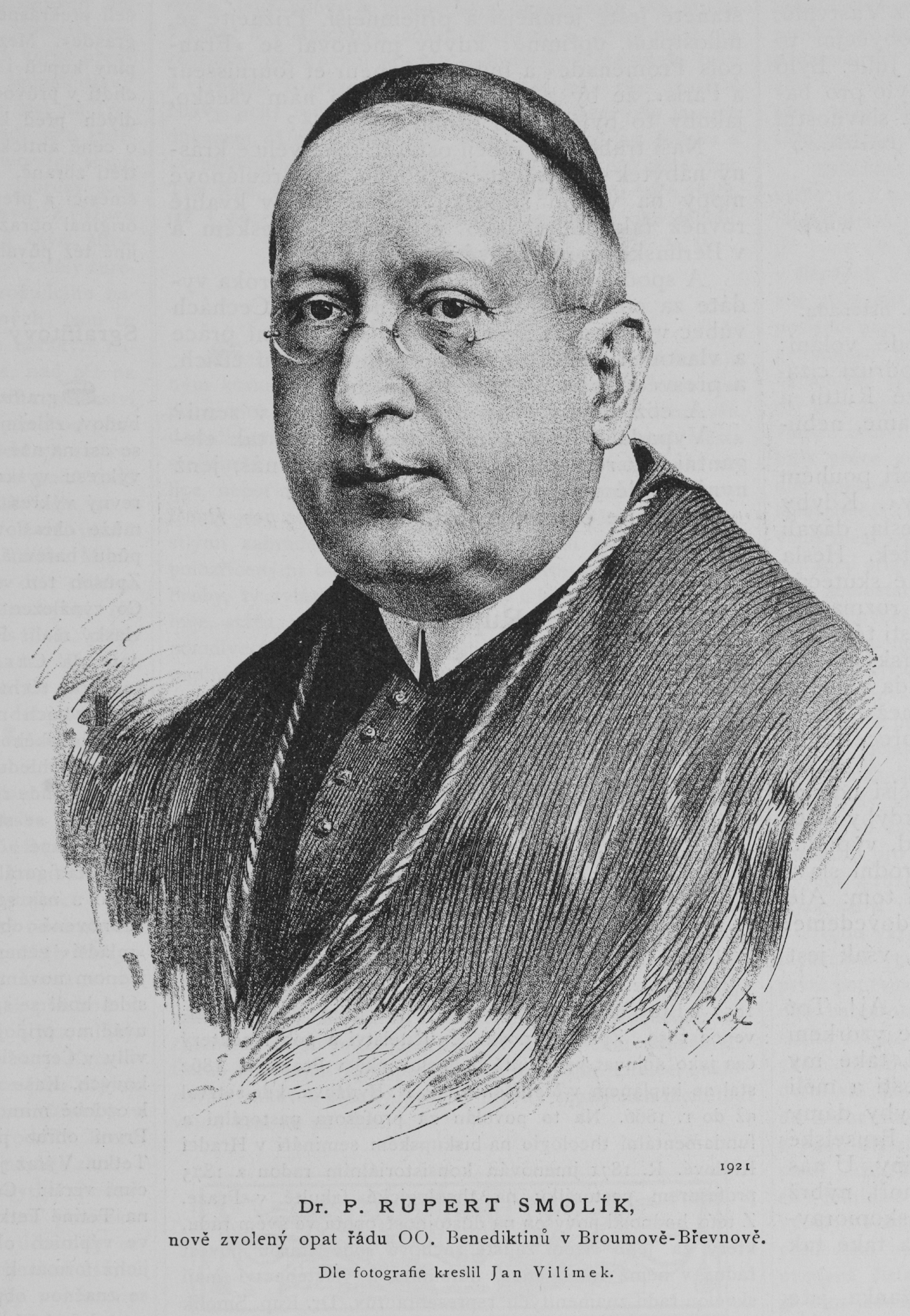 Portrait of Ruprecht F. X. Smolík (1832 - 1887), Czech Benedictine priest and teacher; abbot of Brevnov Monastery in Prague after 1886.